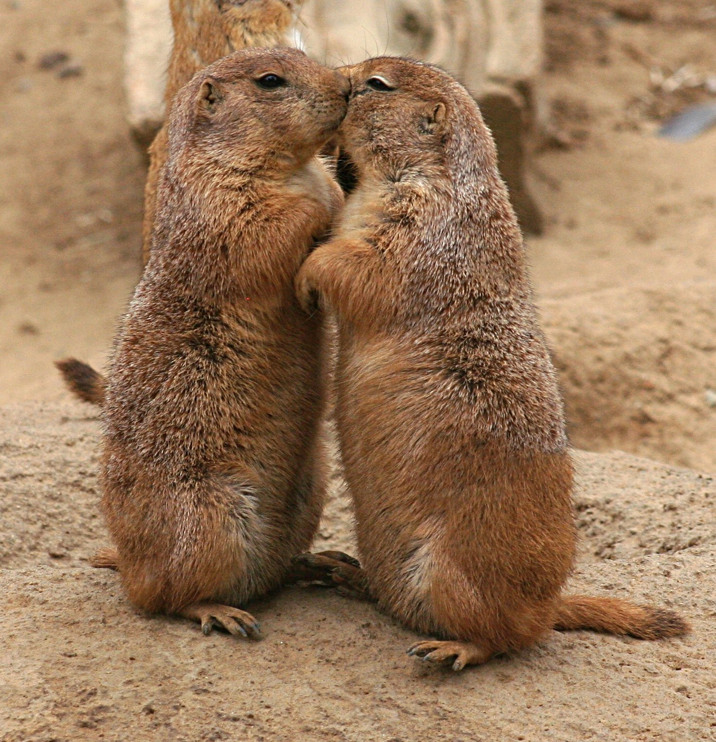 Kissing Black-tailed Prairie Dogs